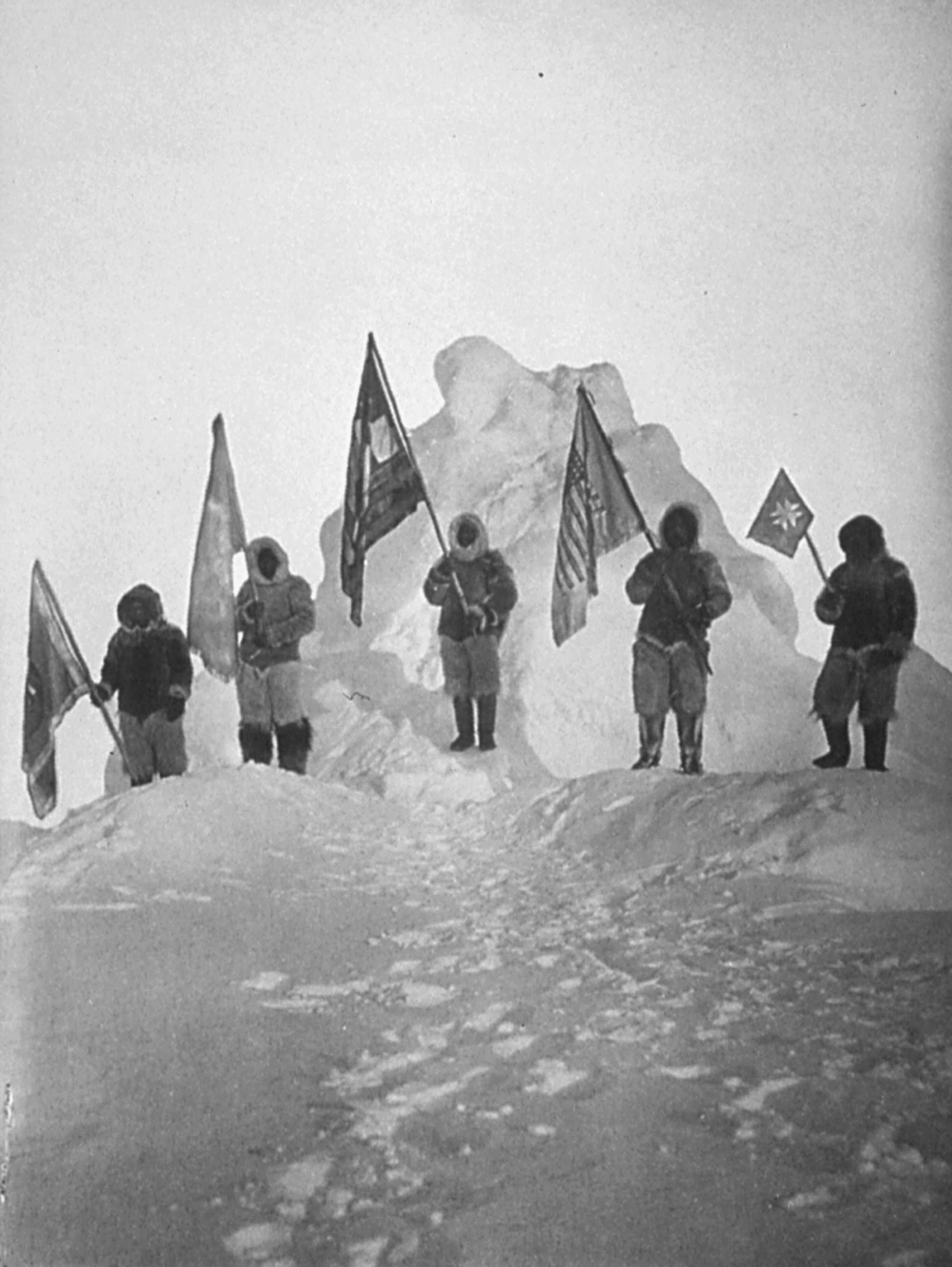 Peary Sledge Party and Flags at the Pole. Original Bildbeschreibung: Pictured are (left to right): Ooqueh, holding the Navy League flag; Ootah, holding the D.K.E. fraternity flag; Matthew Henson, holding the polar flag; Egingwah, holding the D.A.R. peace flag; and Seeglo, holding the Red Cross flag.